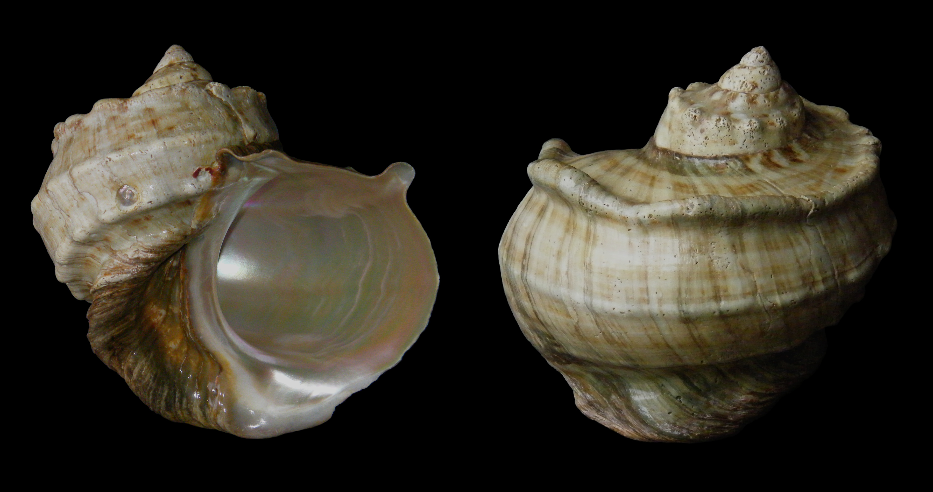 Turbo marmoratus Linnaeus, 1758. light colour, 17 cm.